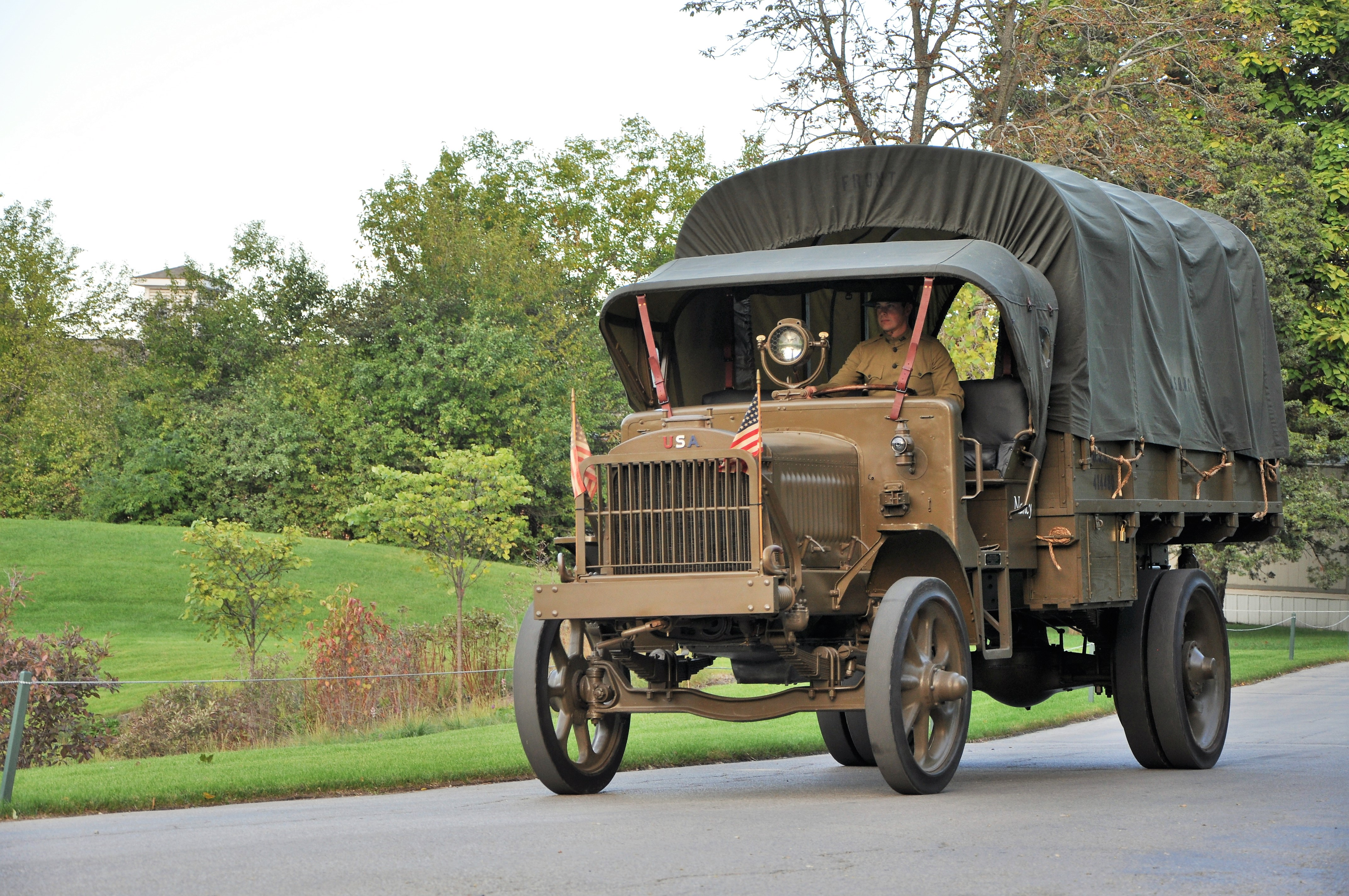 Restored Second-series Liberty Truck in the Fall of 2018 belonging to the First Division Museum at Cantigny Park in Wheaton, IL